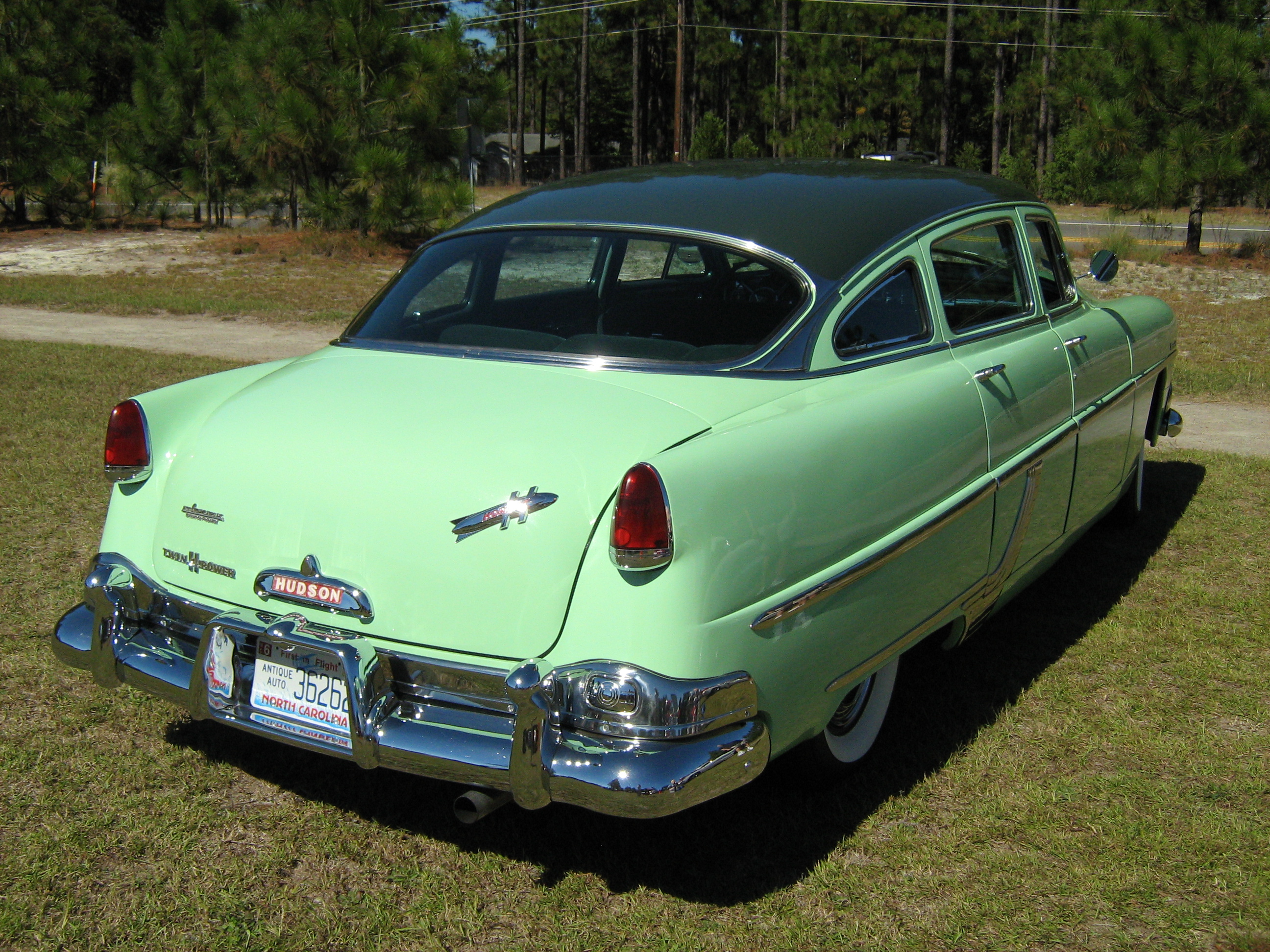 1954 Hudson Hornet. A four-door "Step-Down" sedan finished in two-tone paint: light green with darker green roof. This car has the "Twin-H-Power" 308 cu in (5.0 L) straight-six engine producing 170 hp (127 kW). Picture taken at a local car show in North Carolina.